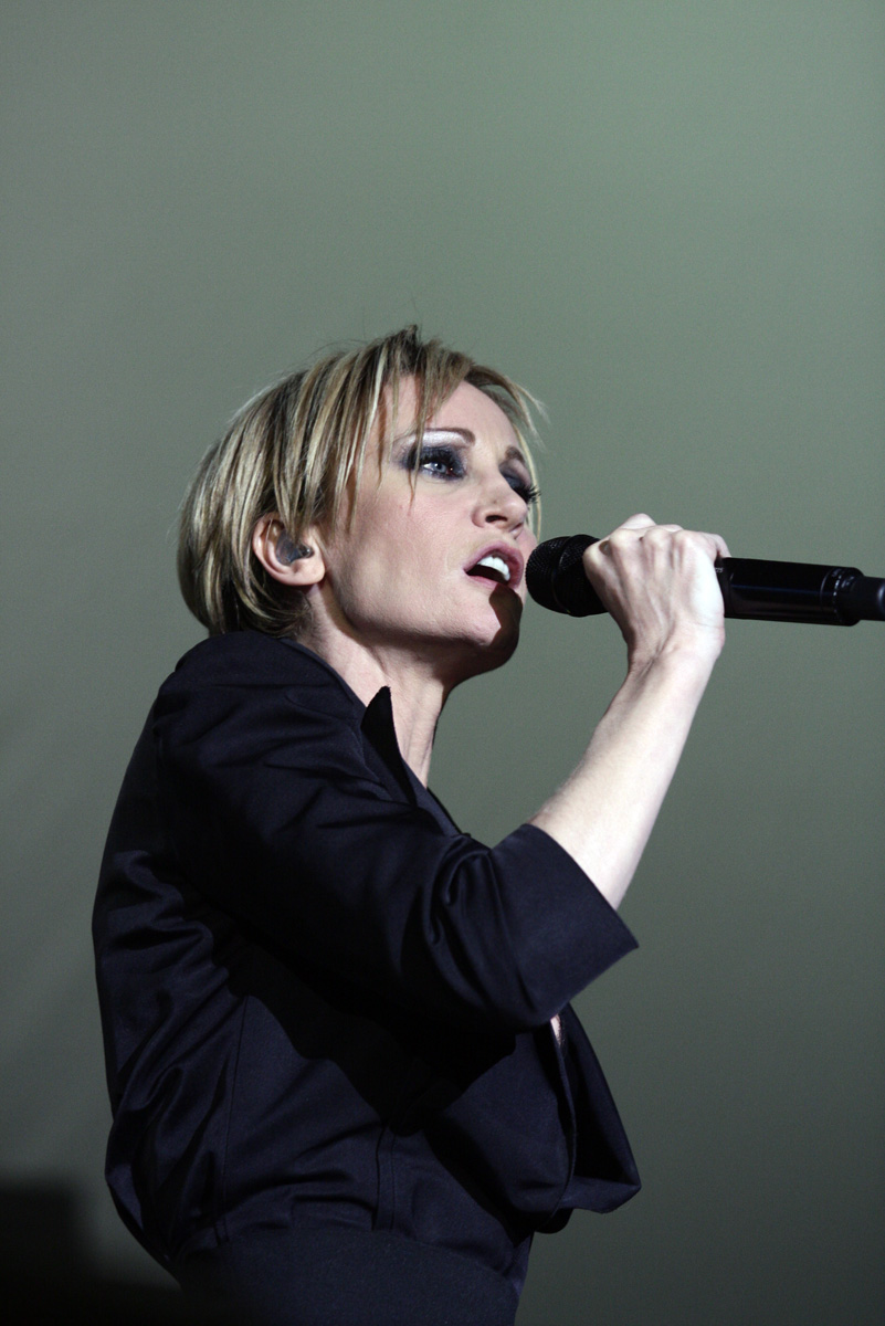 Patricia Kaas, Vilnius, Lithuania. 2009-04-24